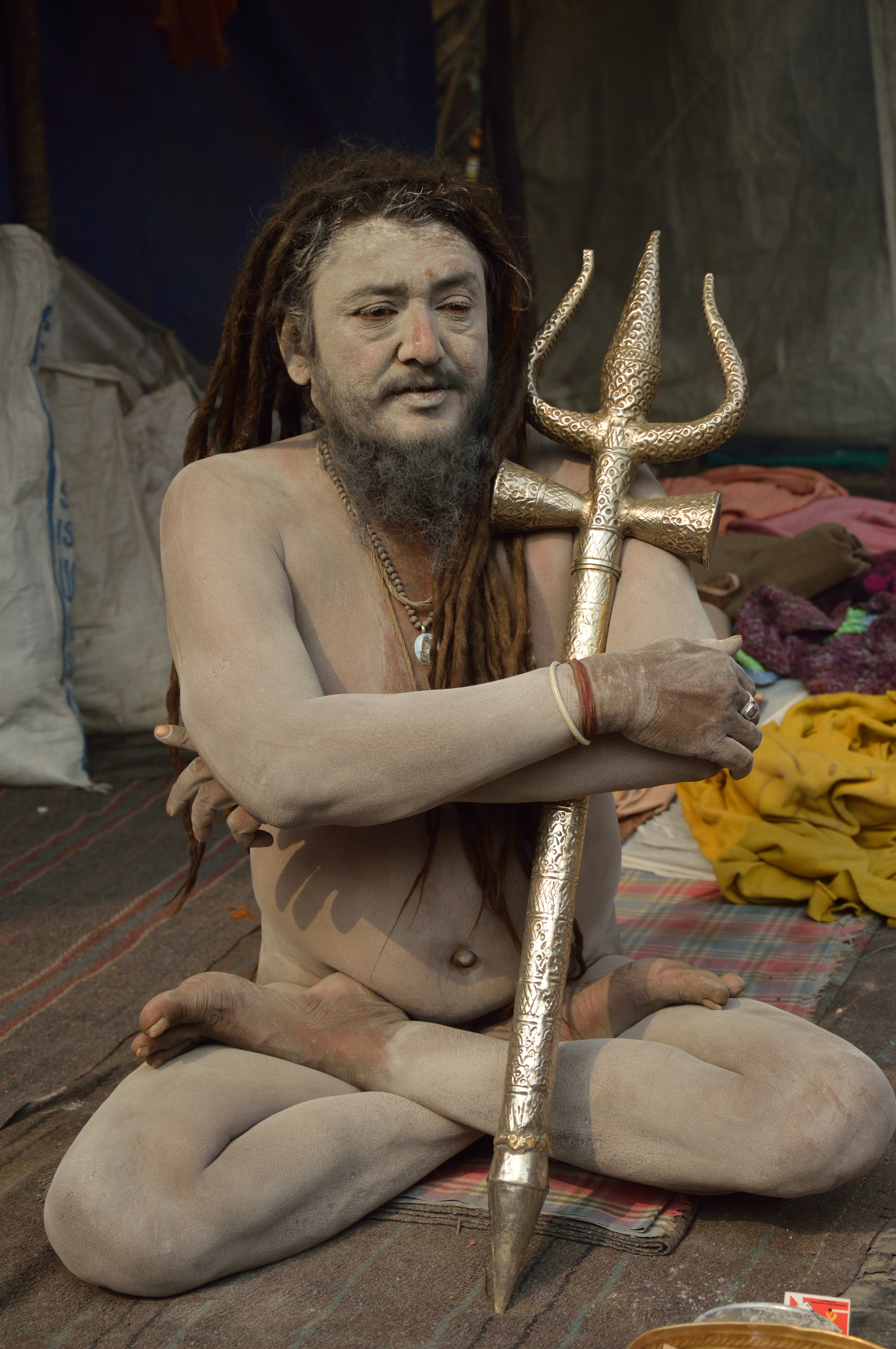 The Hindu Naga or Naked or Digambara or sky-clad Sadhu at the Gangasagar fair transit camp near Outram Ghat in Kolkata.